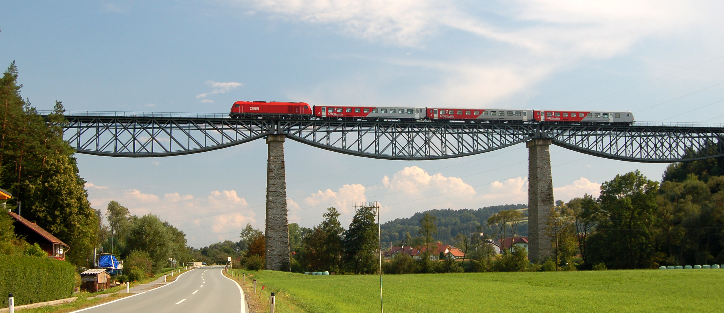 The railway bridge of the Styrian Thermenbahn crossing the Lafnitz Valley near Rohrbach an der Lafnitz, Styria. Train going north to Friedberg.